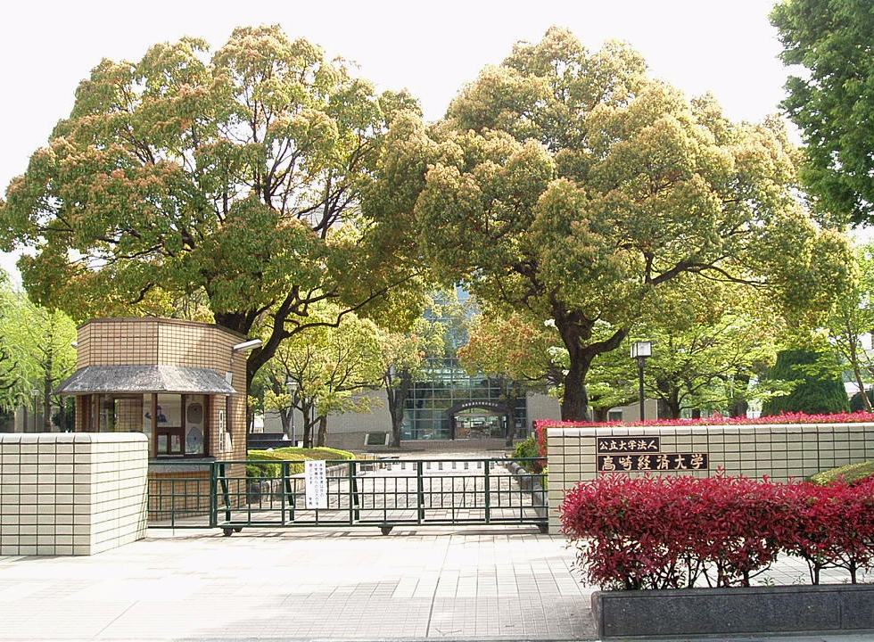 The main gate of Takasaki City University of Economics